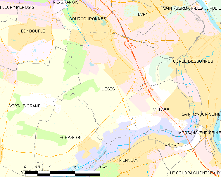 Map of French municipality Lisses